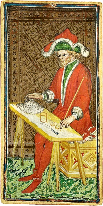 The Magician card from the Visconti-Sforza Tarot deck.